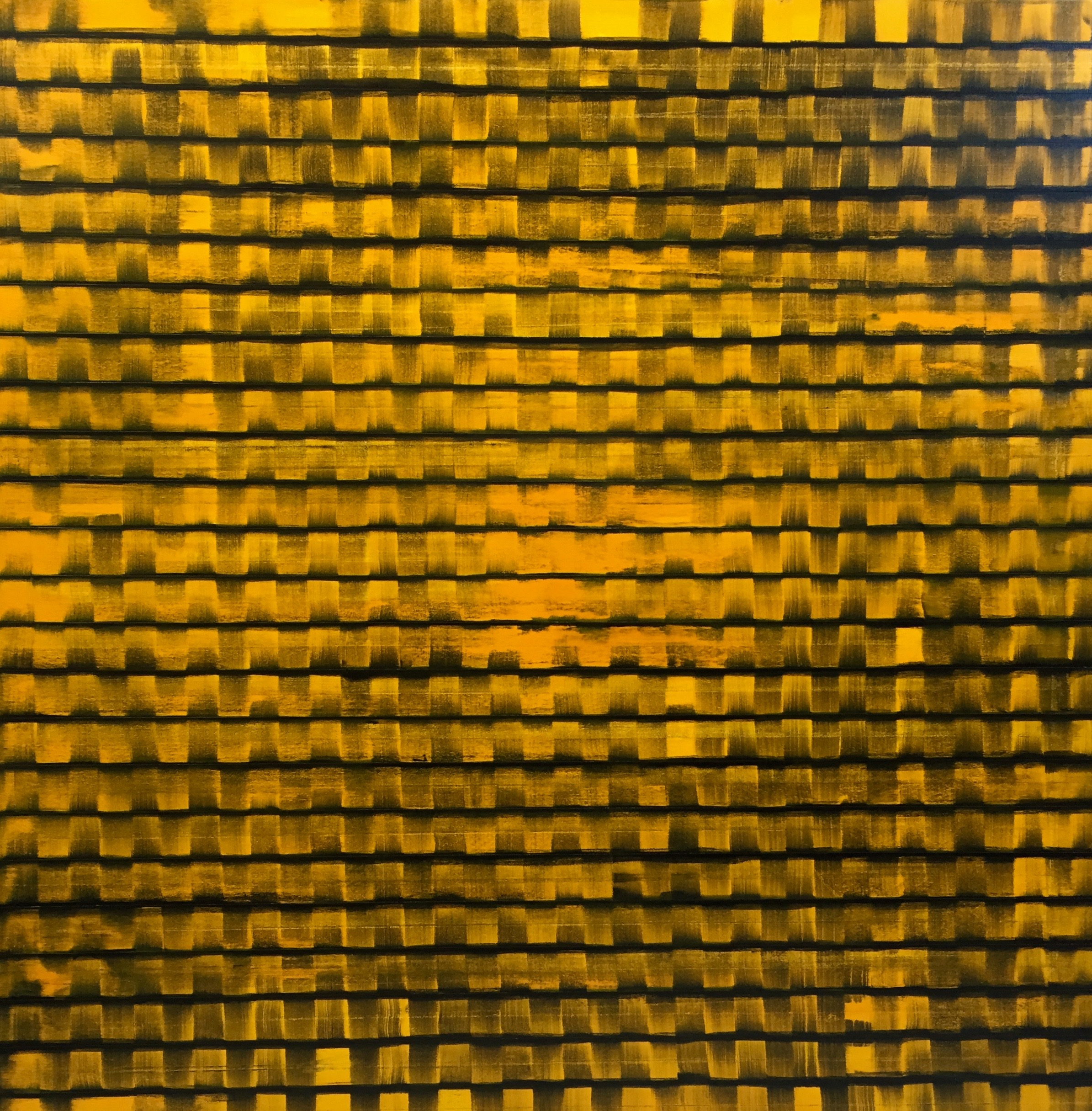 Todd WILLIAMSON, Chasing Butterflies (72x72in), Oil on canvas (2015)